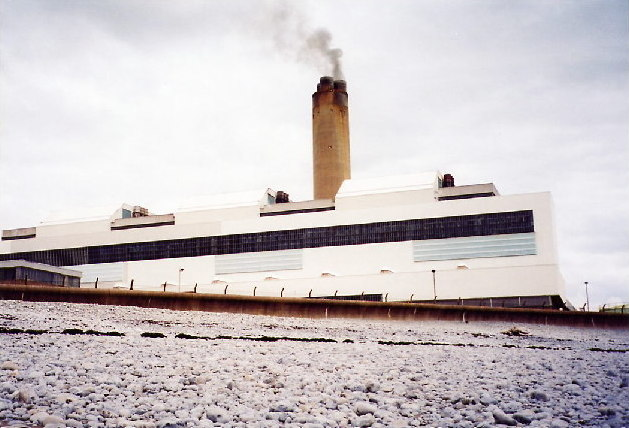 Aberthaw Power Station